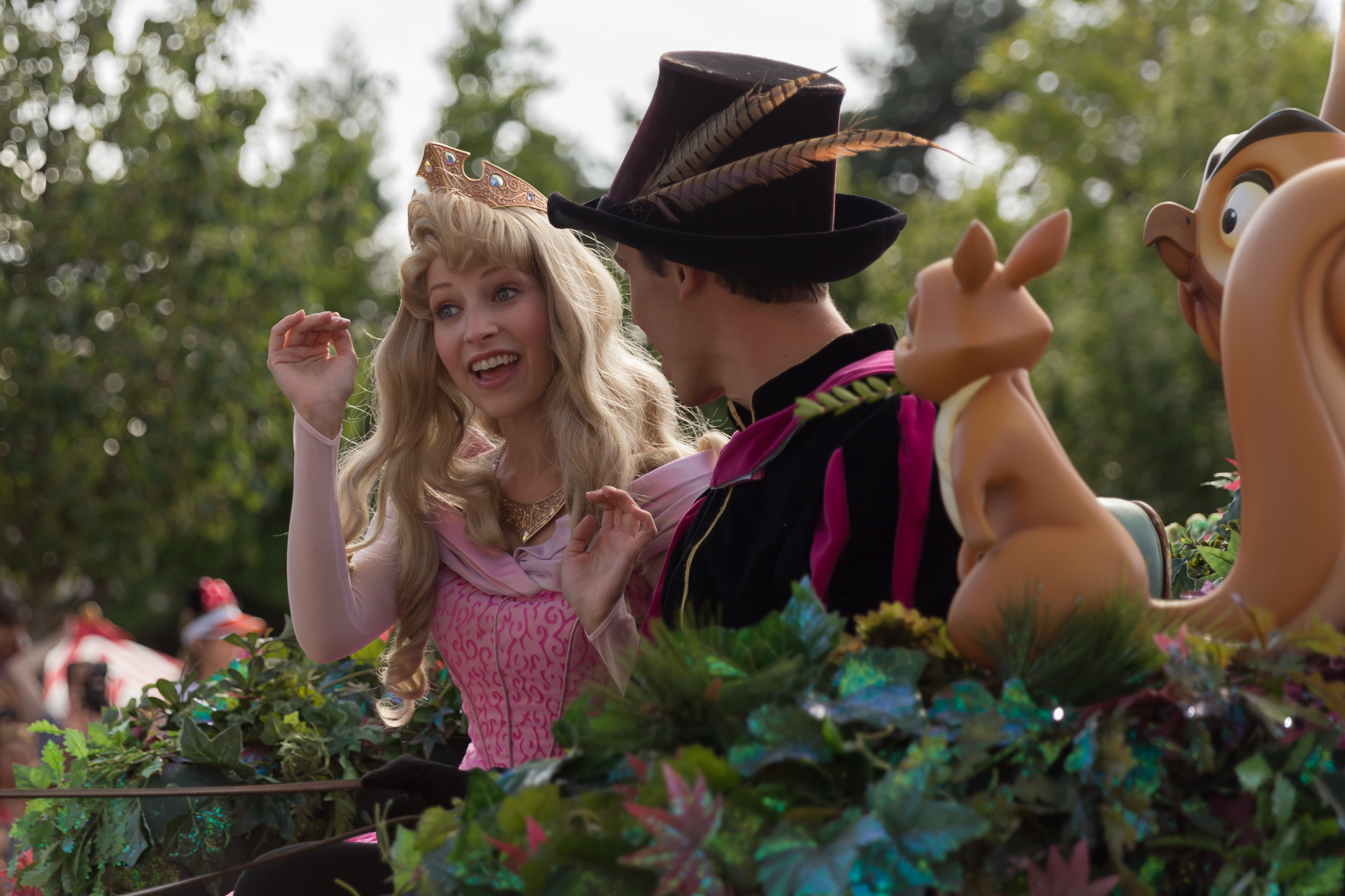 Aurora, Princess of The Sleeping Beauty with her prince in the Disney Magic On Parade in Disneyland Paris.